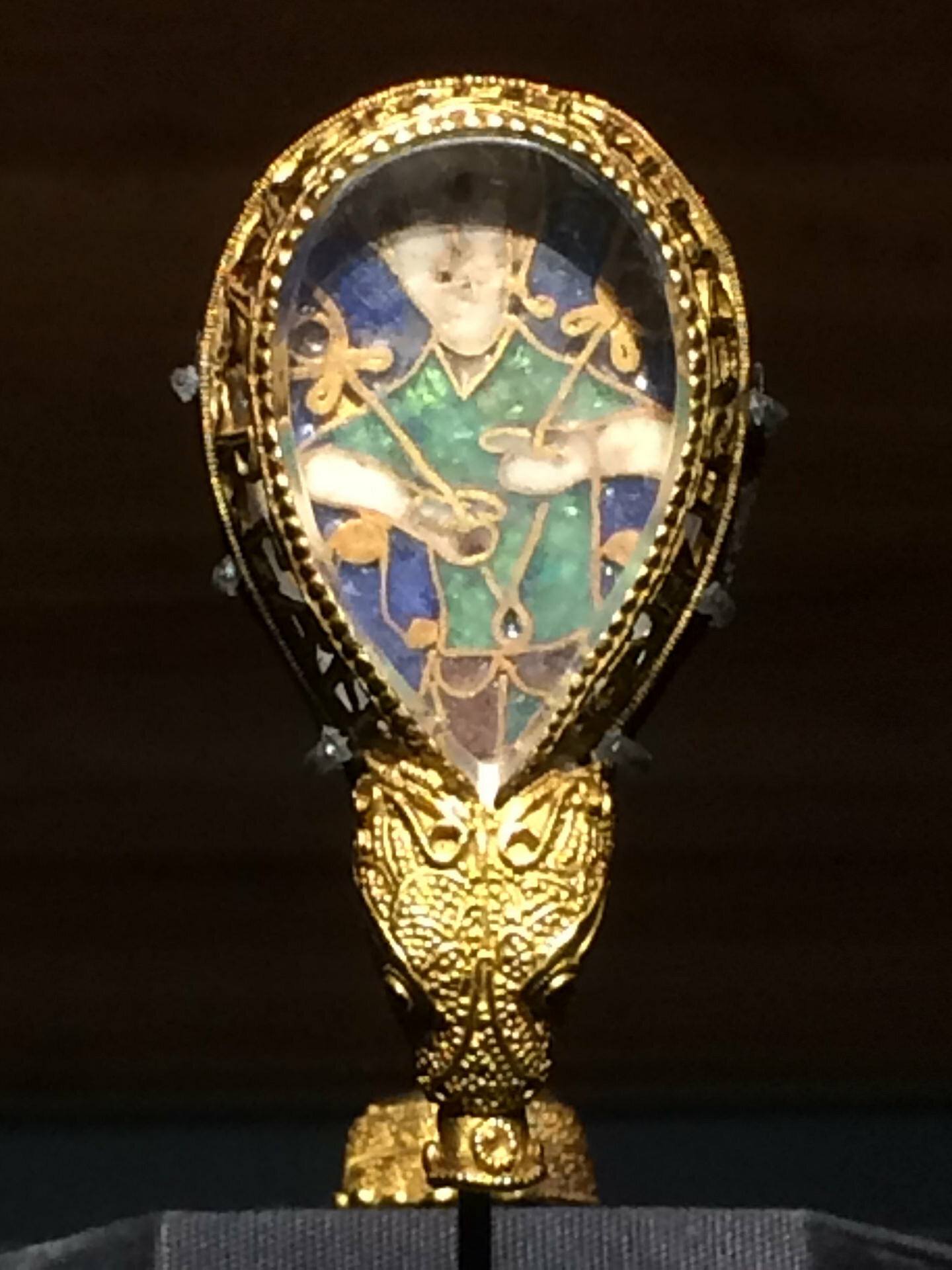 Alfred Jewel found at the Ashmolean, Oxford, UK